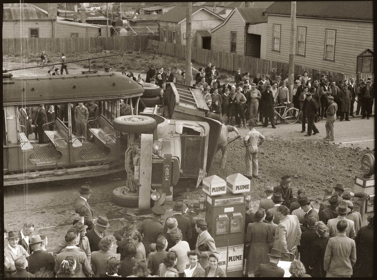 Tram and dump truck collision Botany Road Mascot/Tram victorious